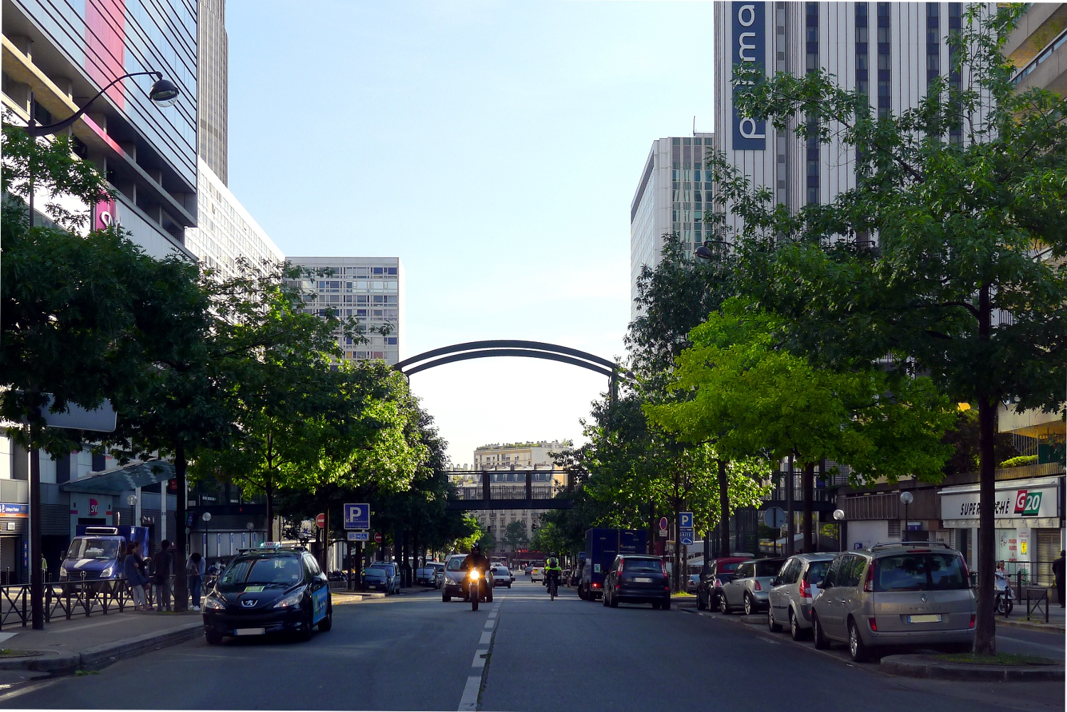 Commandant-René-Mouchotte street - Paris